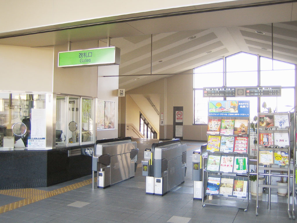 Ina Station (伊奈駅), in Kozakai, Aichi, Japan